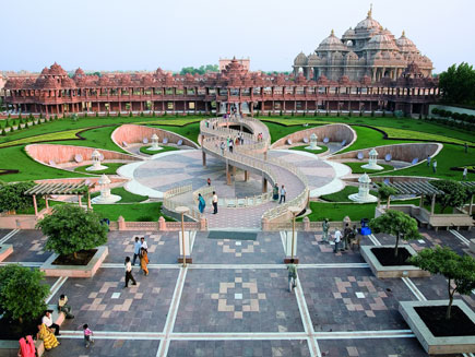 This is a picture of the Yogi Hraday Kamal, a lotus shaped sunken garden, at the Akshardham complex in Delhi, India